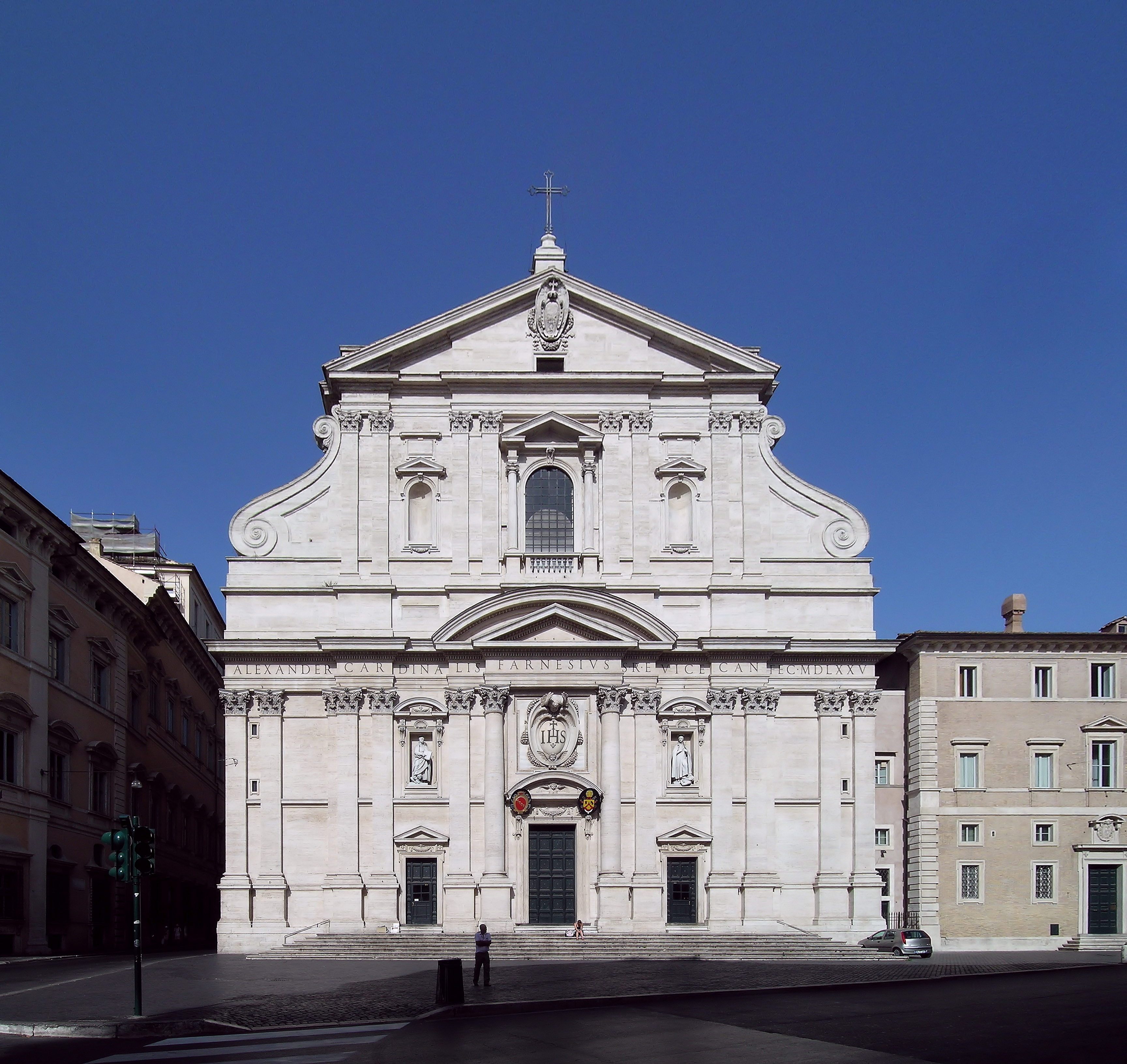 facade of Chiesa del Gesù, a church in Rome, Italy. I took 4 different pictures of different views, then I stitched them together with hugin, correcting the prospective, too. Post-processed with Gimp This is a retouched picture, which means that it has been digitally altered from its original version. Modifications: Noise reduction by Lycaon.